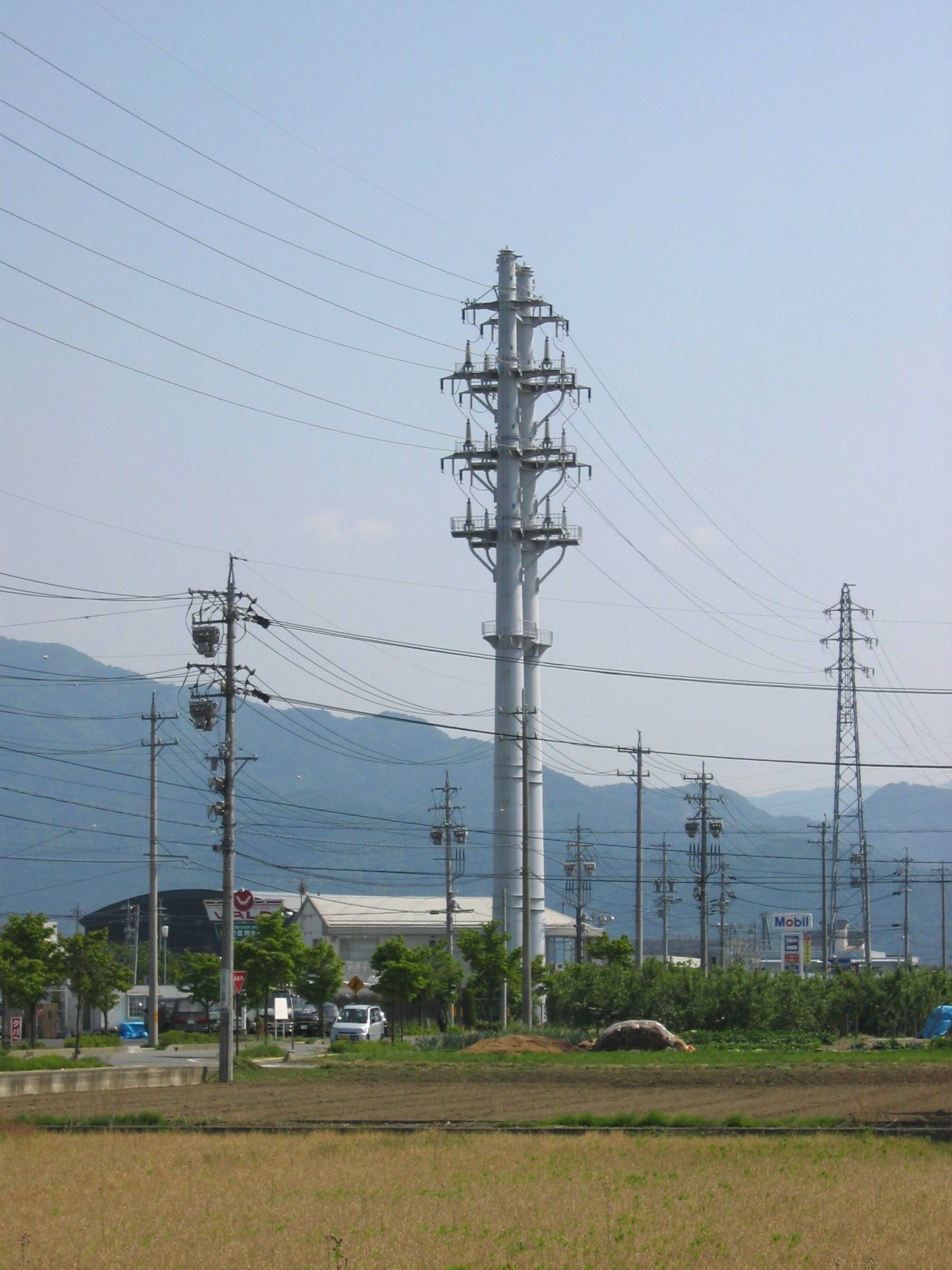 Tube pylons in Nagano, Japan.